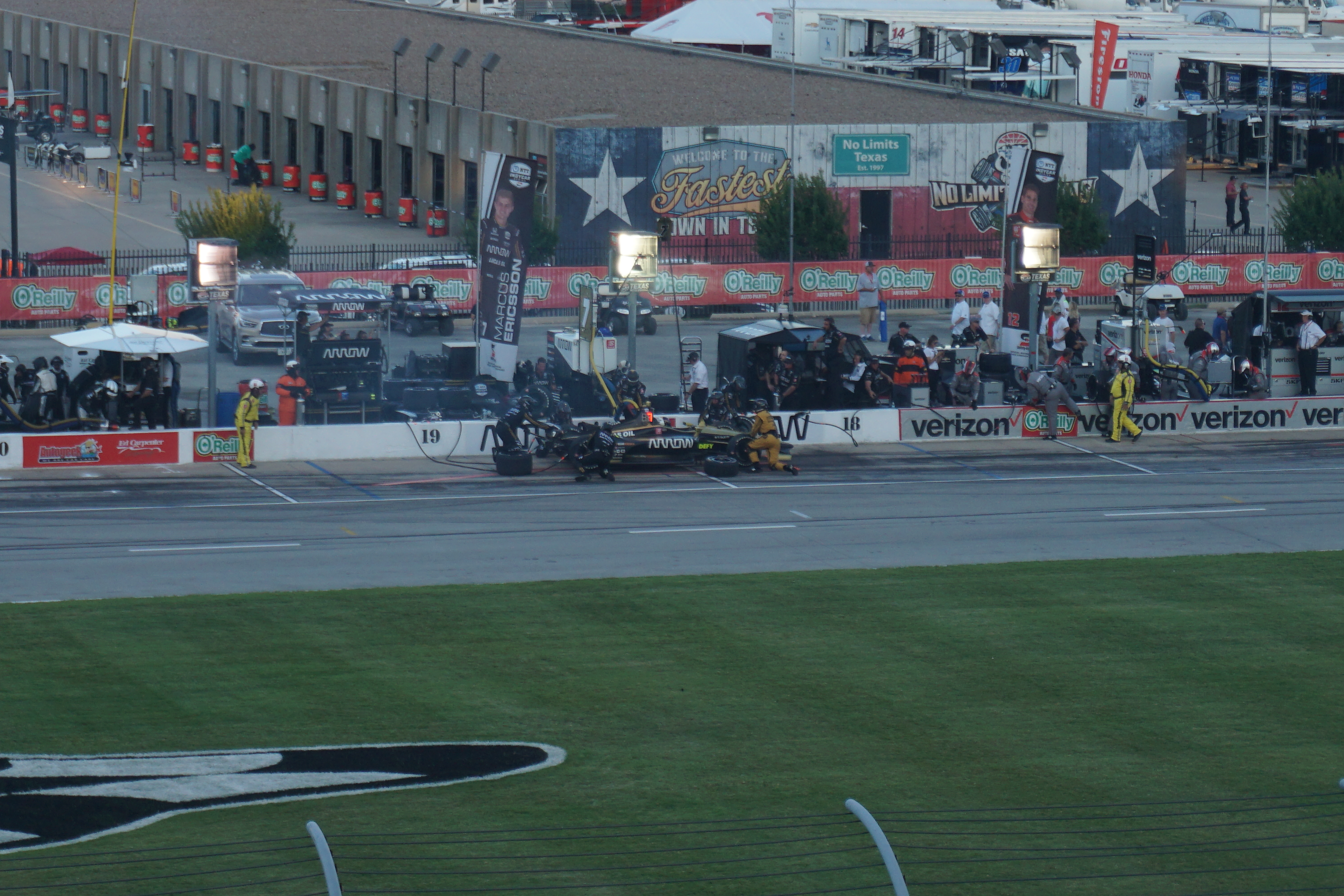 Marcus Ericsson making a pit stop during the 2019 DXC Technology 600 at Texas Motor Speedway in Fort Worth, Texas (United States).